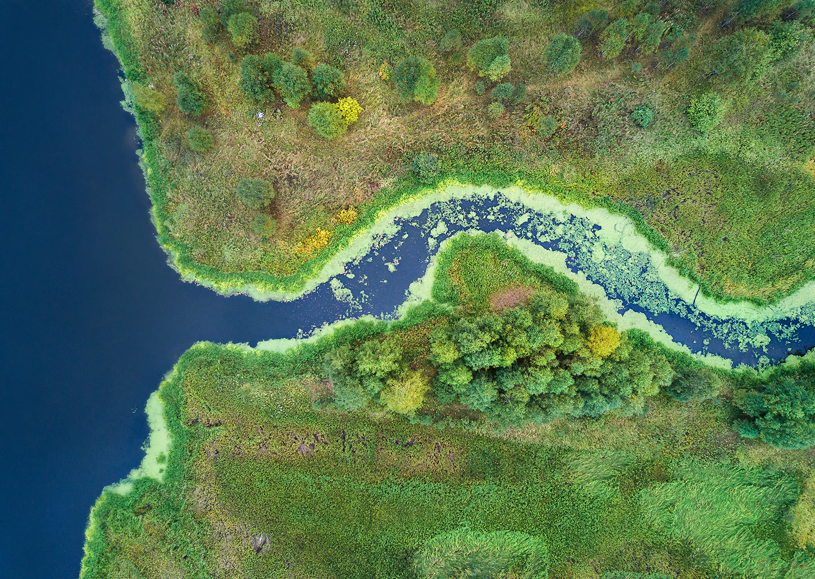 Aerial view of the tributary of the Chusovaya river, Sverdlovsk region